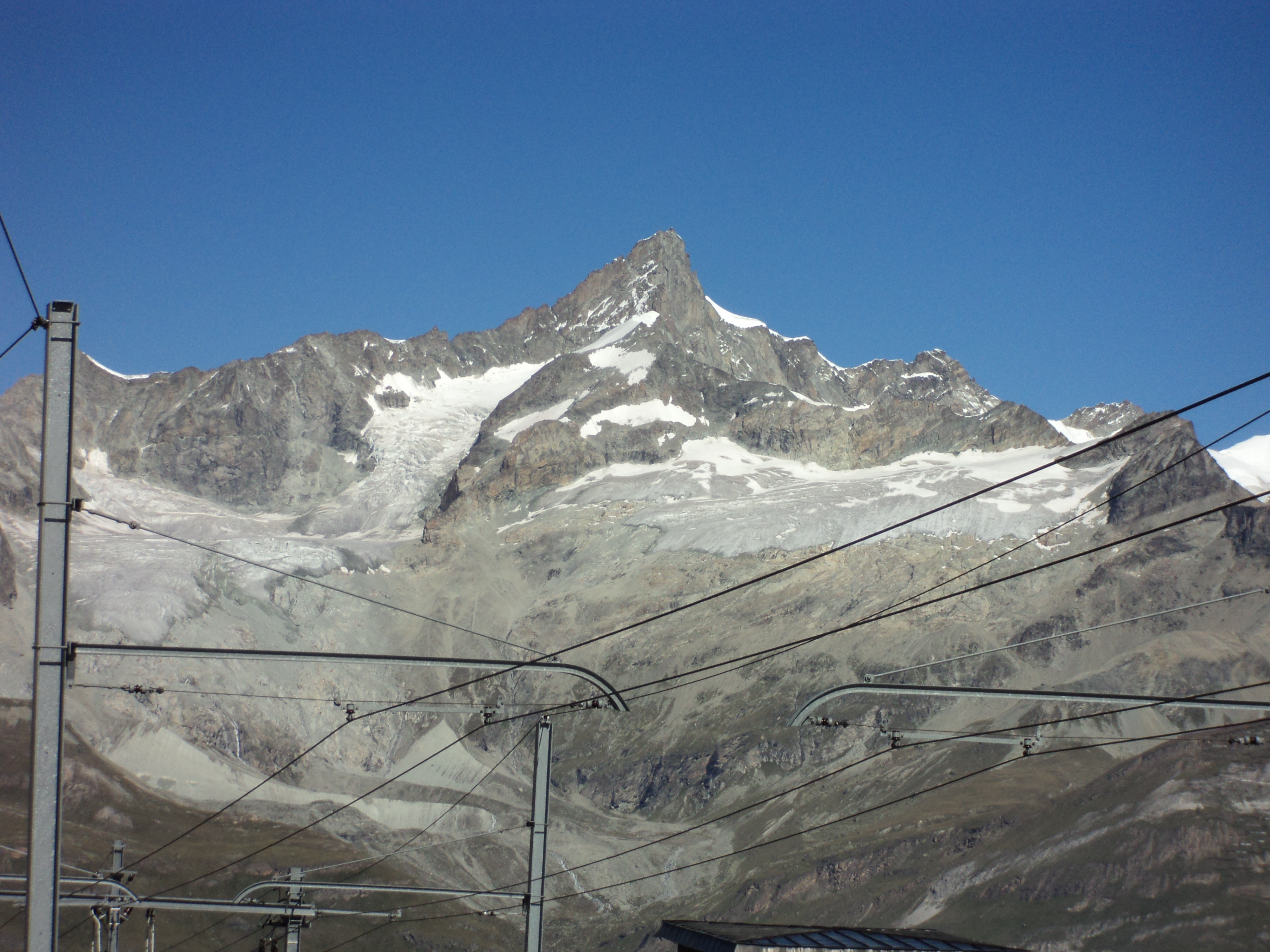 Zinalrothorn from Gornergratbahn